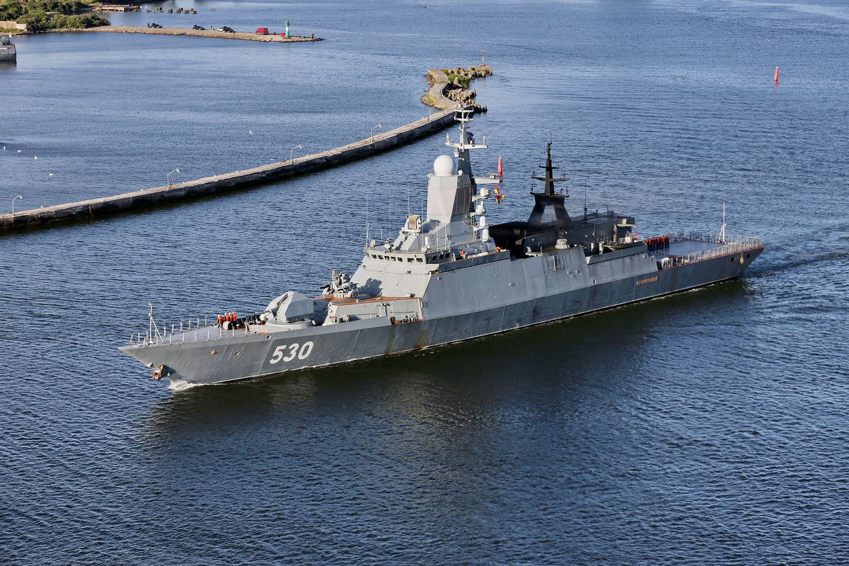 Russian corvette Steregushchiy. 10 Years Anniversary.